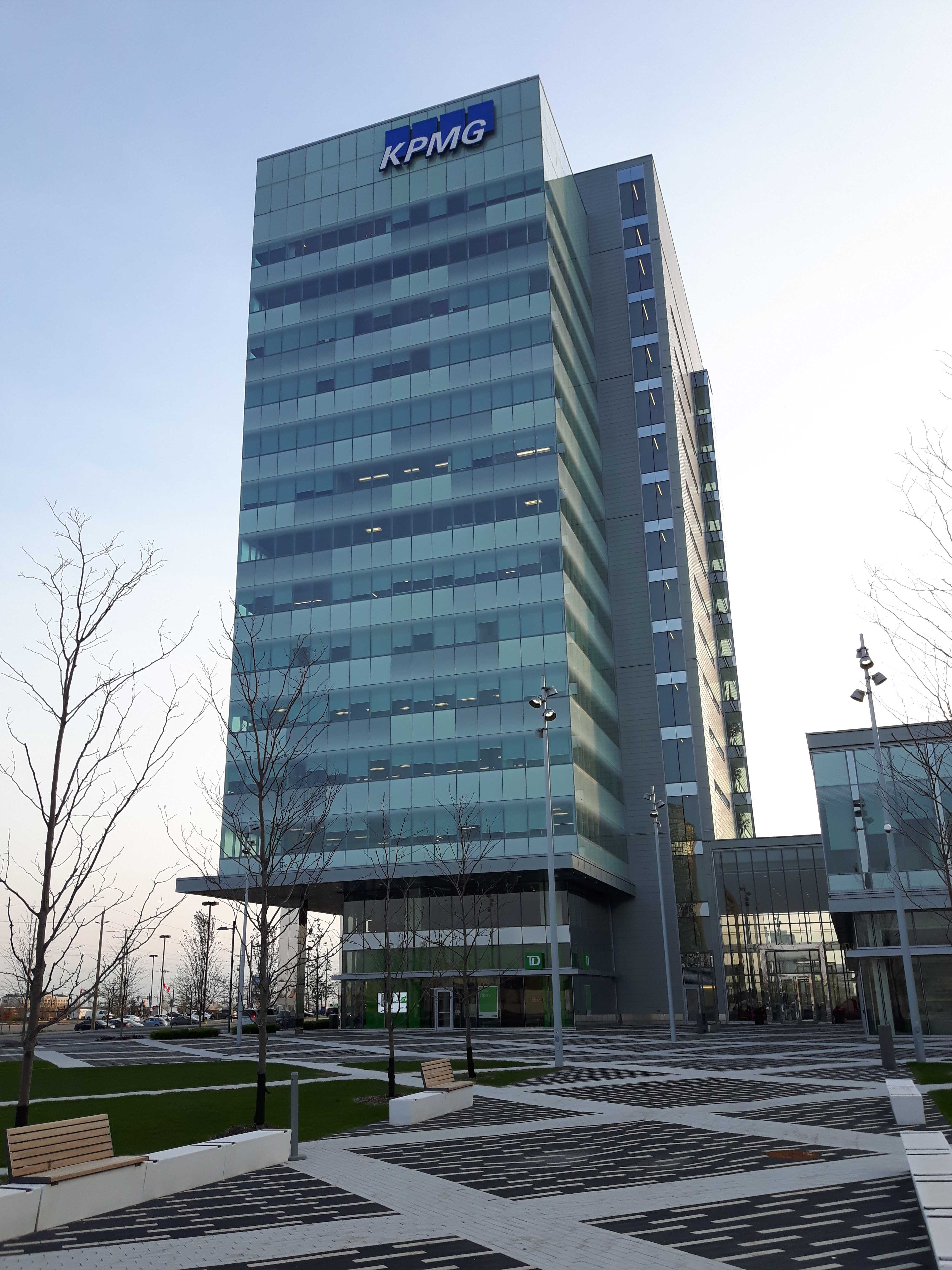 New KPMG building at Vaughan Metropolitan Centre in Vaughan, Ontario